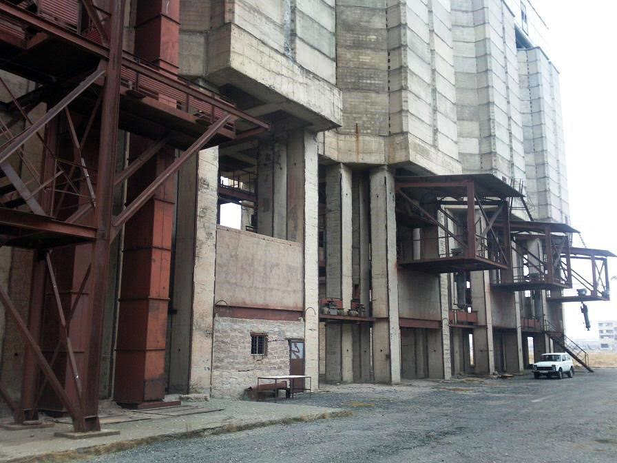 Perlite plant